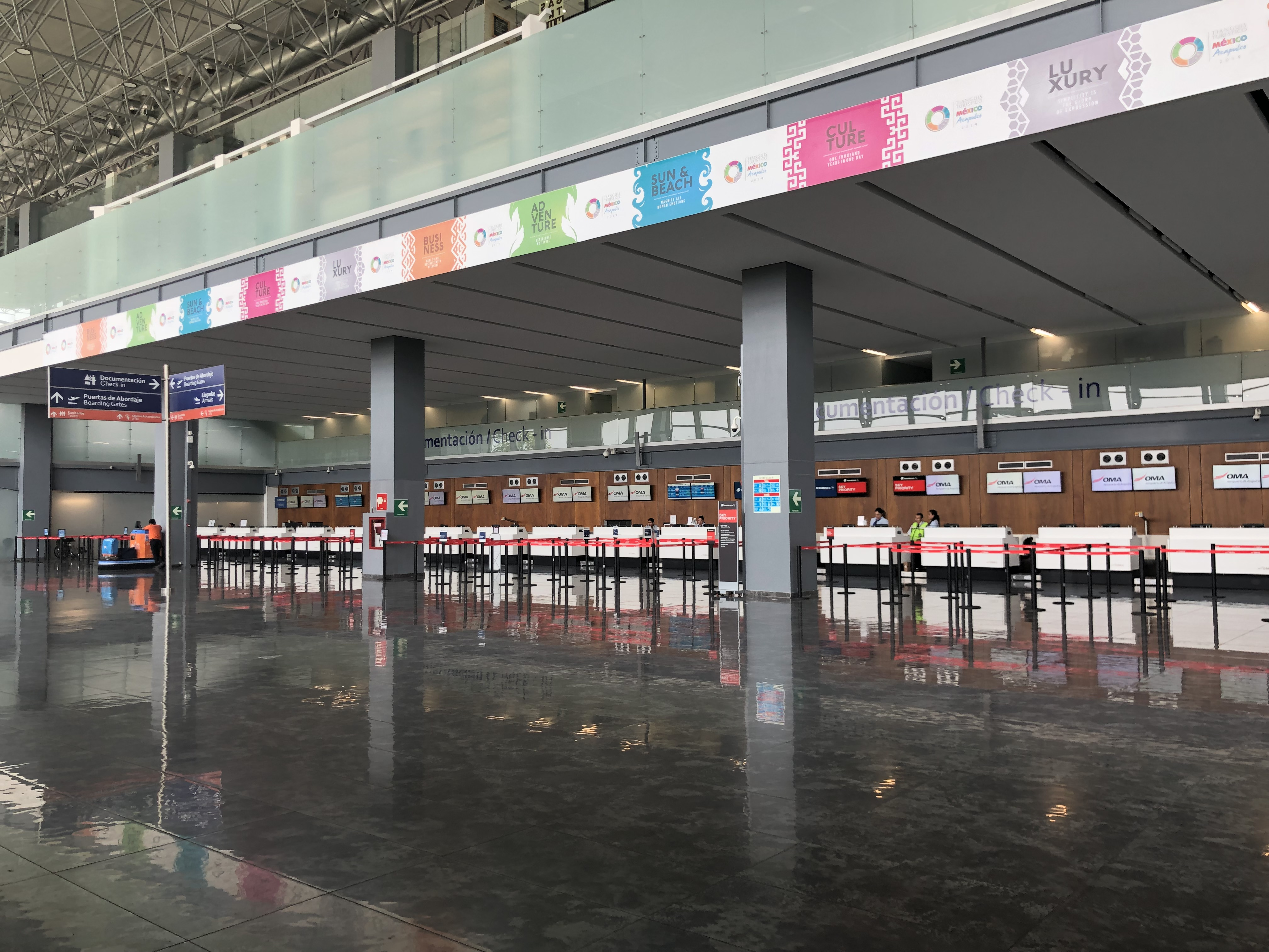 Aeropuerto Acapulco